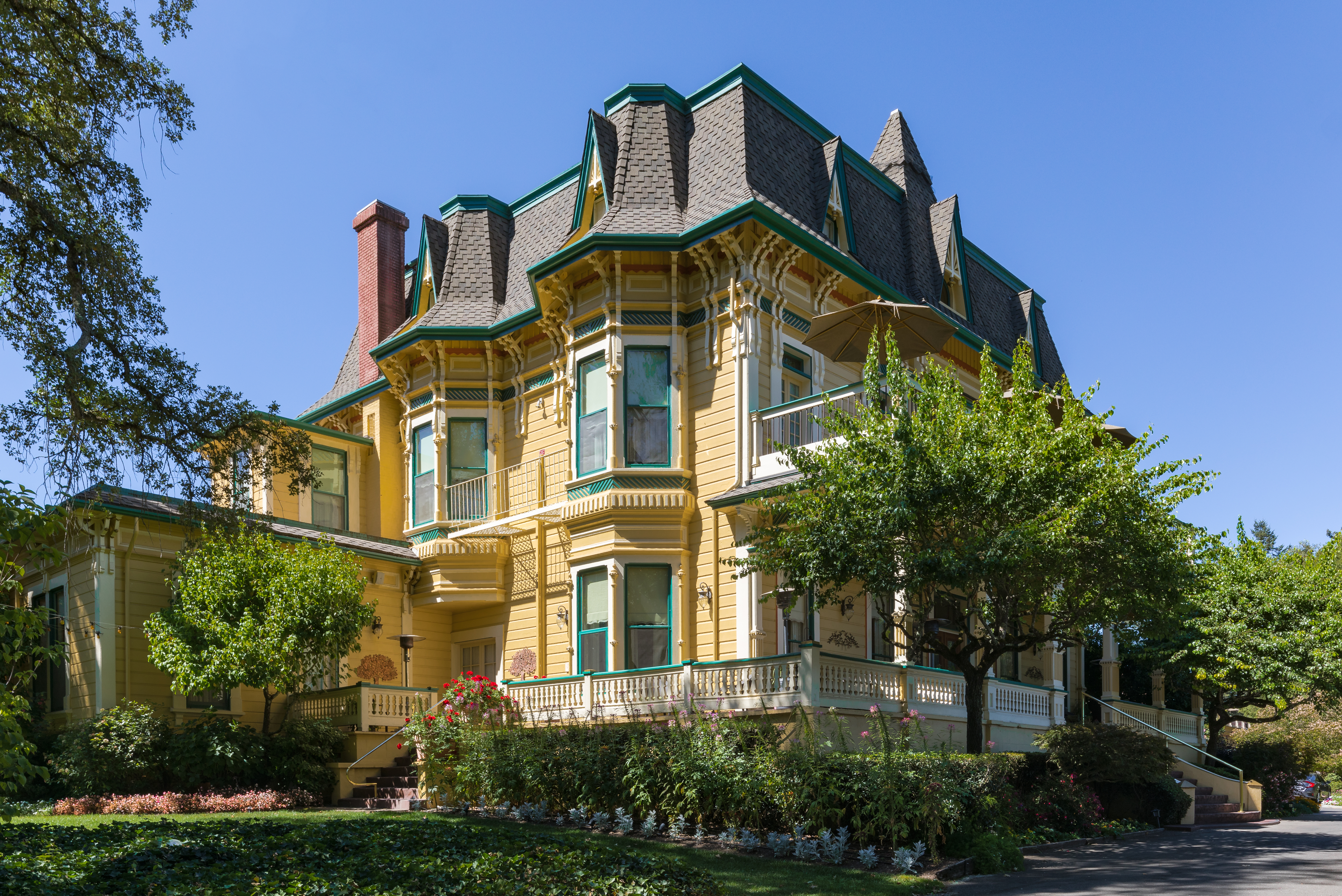 Madrona Manor, Dry Creek Valley, Sonoma, California